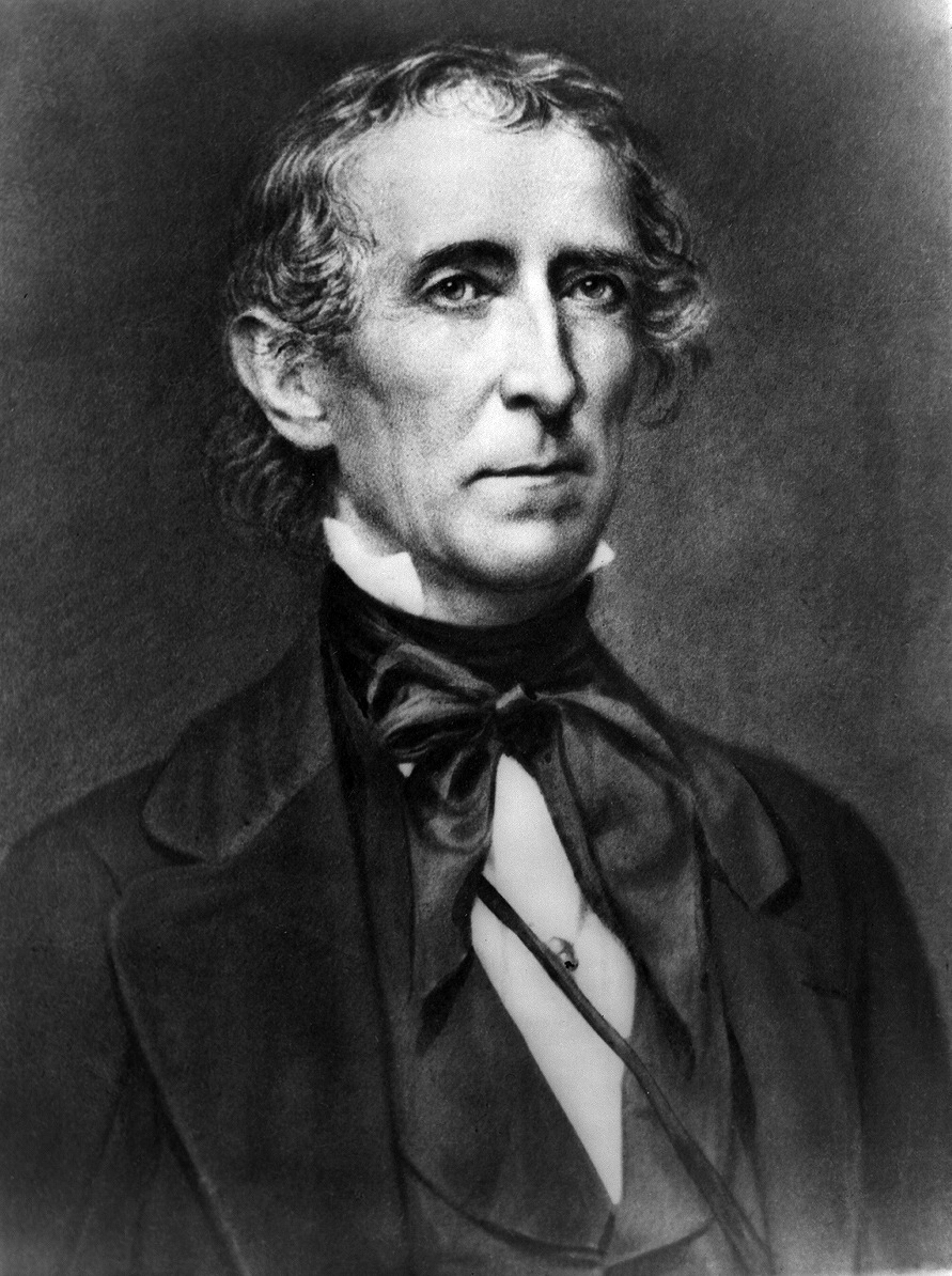 President John Tyler, half-length portrait, facing right